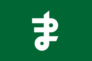 Flag of Mamurogawa Yamagata